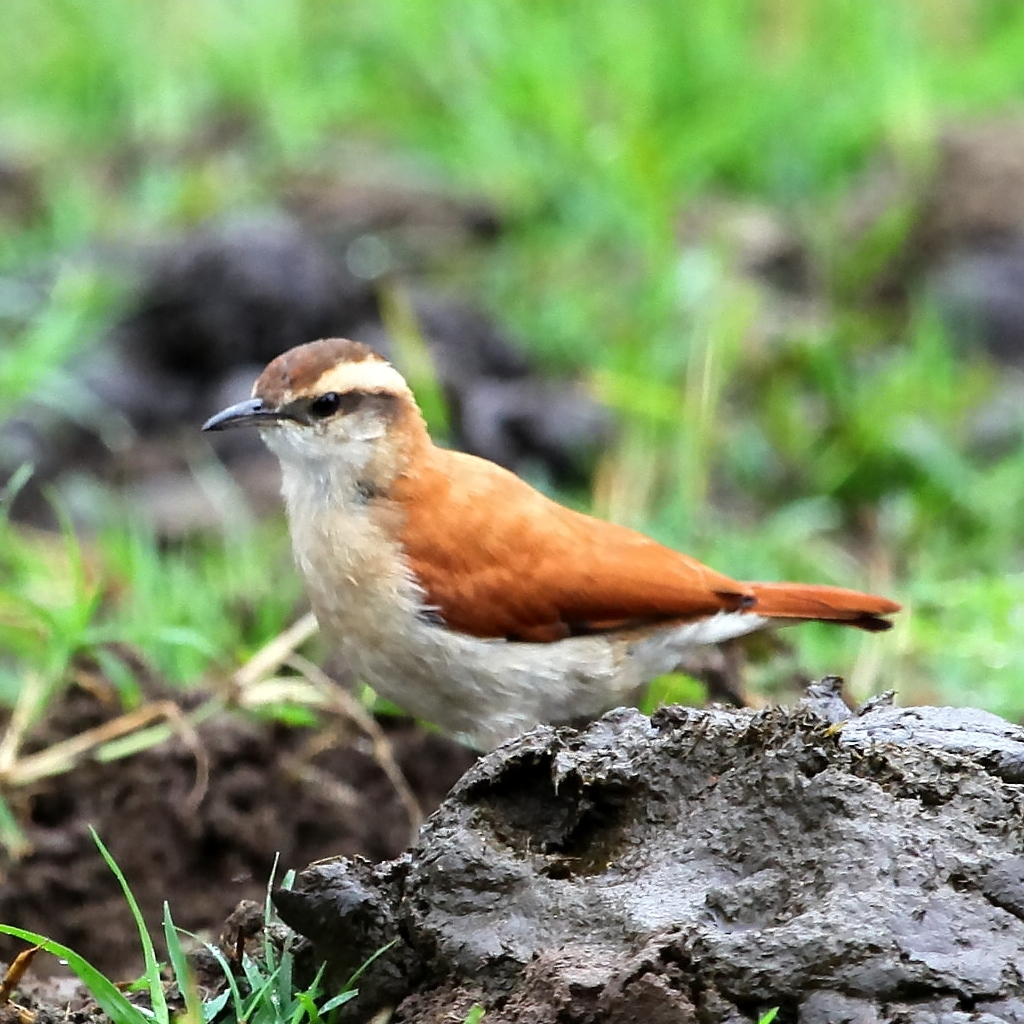 Wing-banded Hornero at Cambui - MG - Brazil